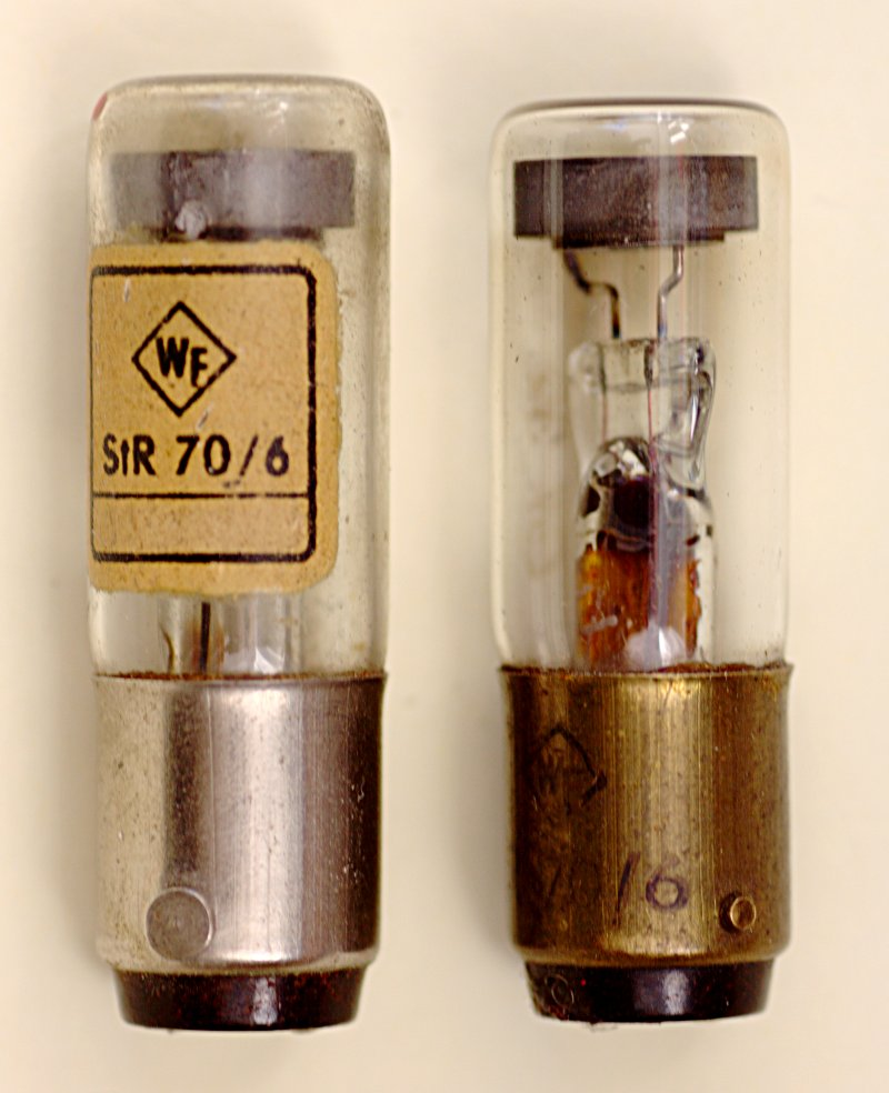 Voltage regulator tubes StR 70/6